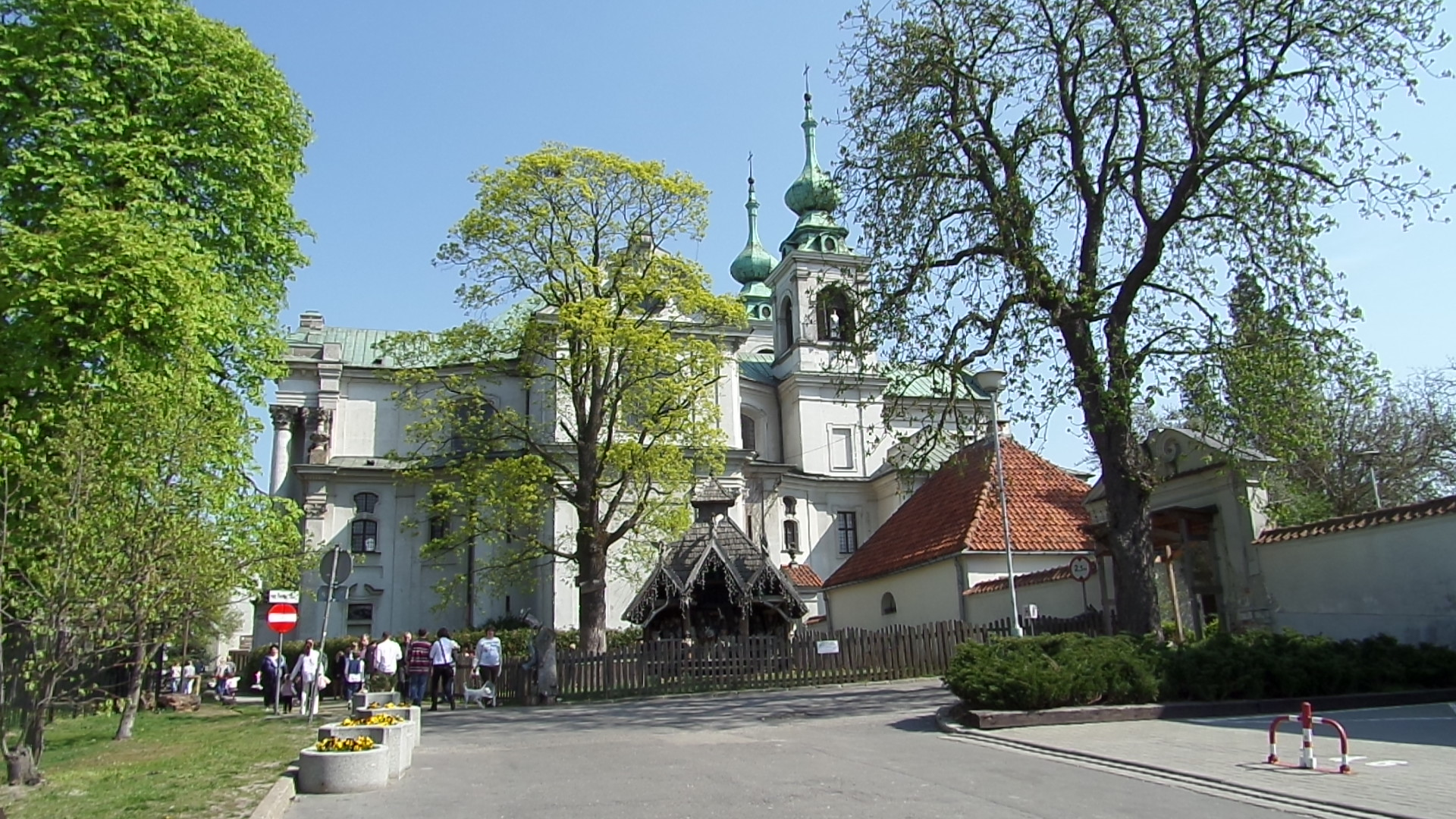 Church of Camaldoleses in Warsaw